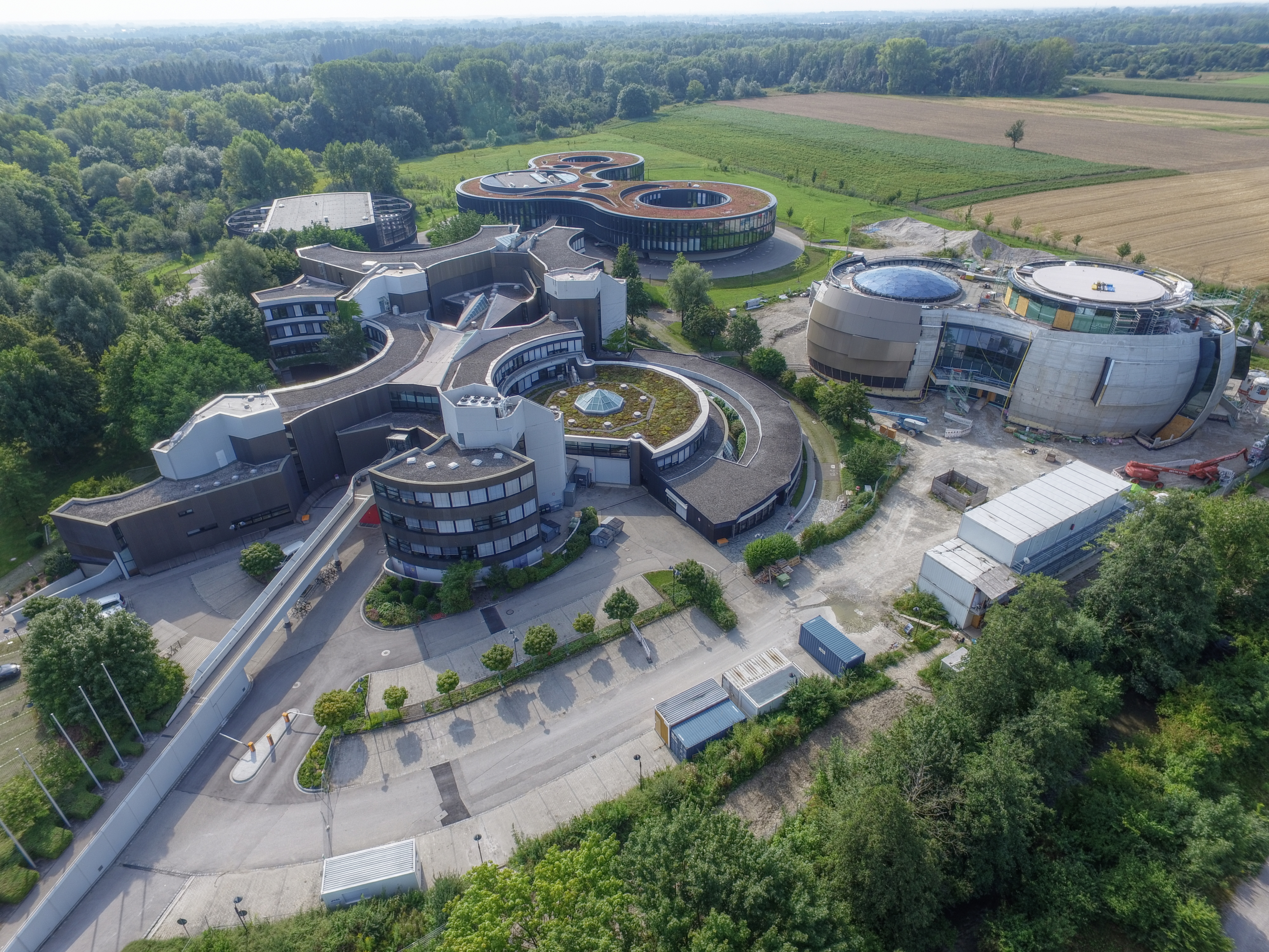 ESO Headquarters Garching, aerial view